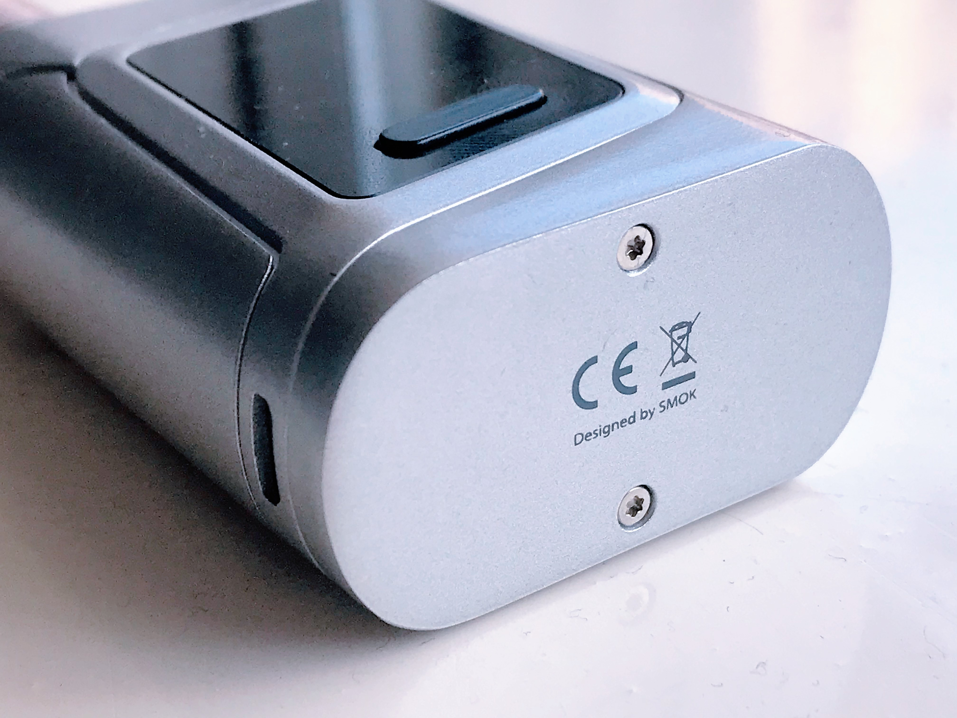 CE marking on Smok Baby electronic cigarette